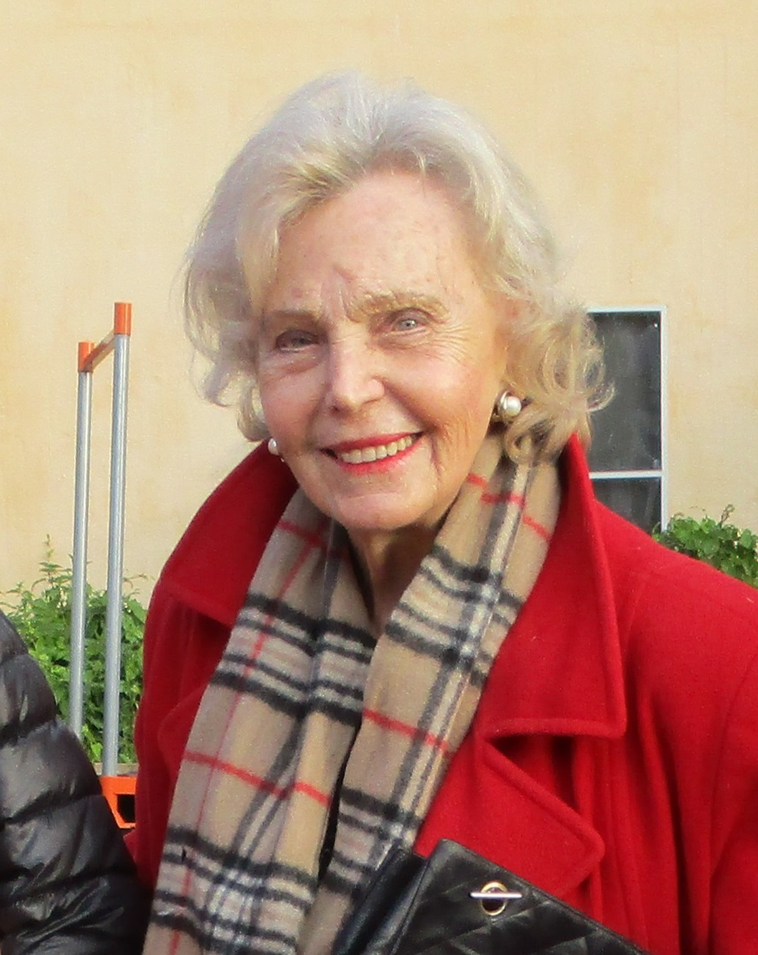 Princess Marianne Bernadotte after an outdoor concert by DivinePlace: Galärparken, Stockholm, Sweden